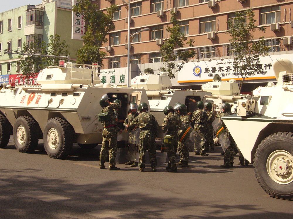 Armed Police soldiers and armored vehicles WZ551 in the street of Urumqi in September 4, 2009. Days before and at the time, tens of thousands of civilians demonstrated around major places in the city, against a series of the hypodermic needle attacks starting in mid-August.